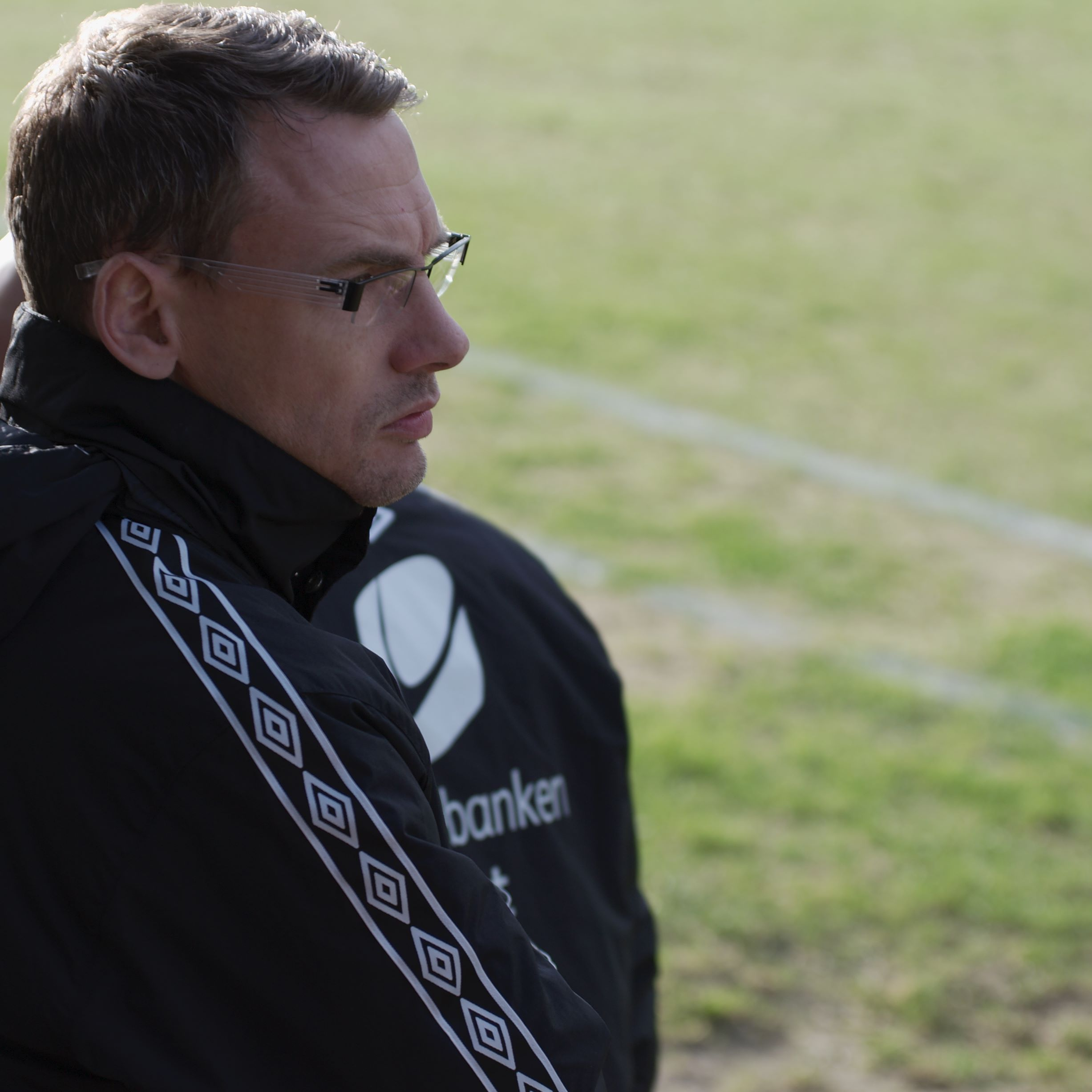 Jonas Olsson - coach of team Sogndal.